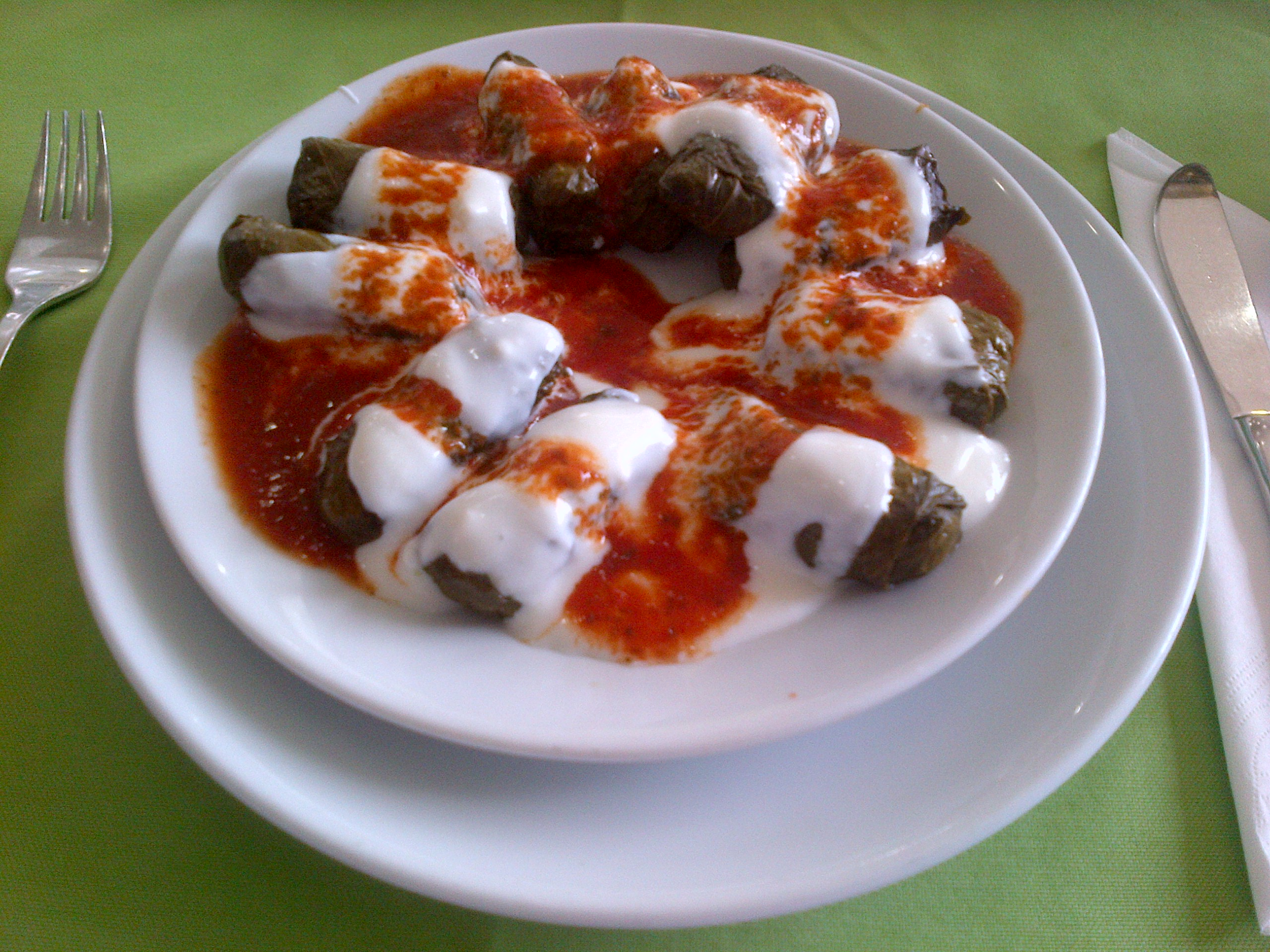 "Etli yaprak sarma" (Vine leaves stuffed with ground beef) from the Turkish cuisine, with their typical garlic yogurt sauce.